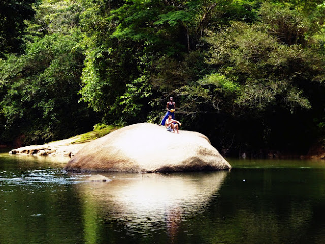 Sitio turistico